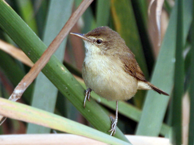 Blunt-winged Warbler (Acrocephalus concinens) in Kolkata, West Bengal, India.